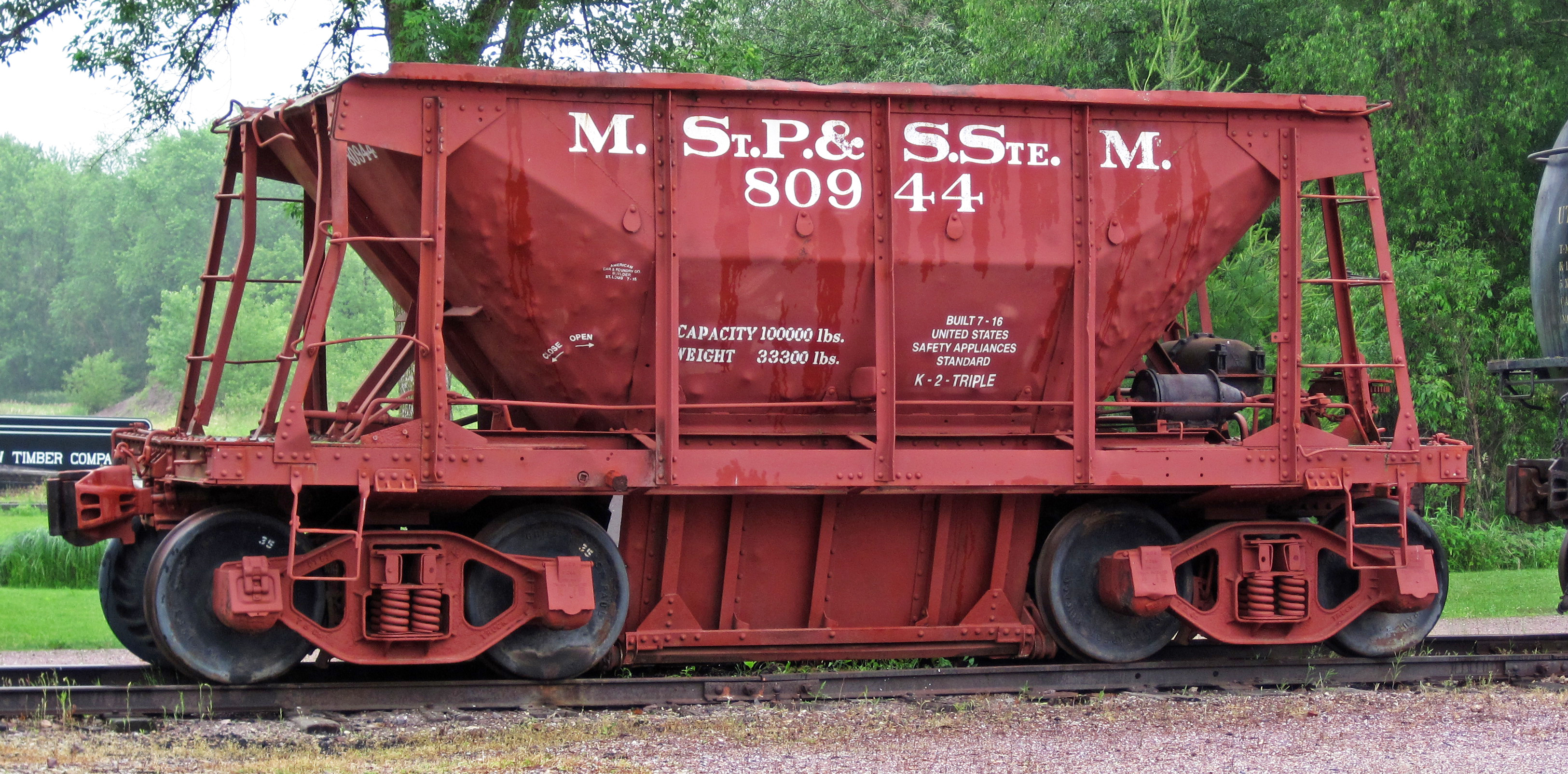 This is a restored iron ore car built in 1916 for the Soo Line (= Minneapolis, St. Paul and Sault Ste. Marie Railroad). It was painted hematite red to reflect a common color of the iron ore rocks it hauled. Steel ore cars like this were used to ship high-density, Proterozoic-aged iron ore from the iron ranges of northern Michigan, Wisconsin, and Minnesota. This car is now part of the Mid-Continent Railway Museum collection in the town of North Freedom, Wisconsin. The railroad ballast on the ground is crushed Baraboo Quartzite, which is ~1.7 billion years old (Paleoproterozoic). It comes from a nearby quarry in the Baraboo Ranges of southern Wisconsin. More info.